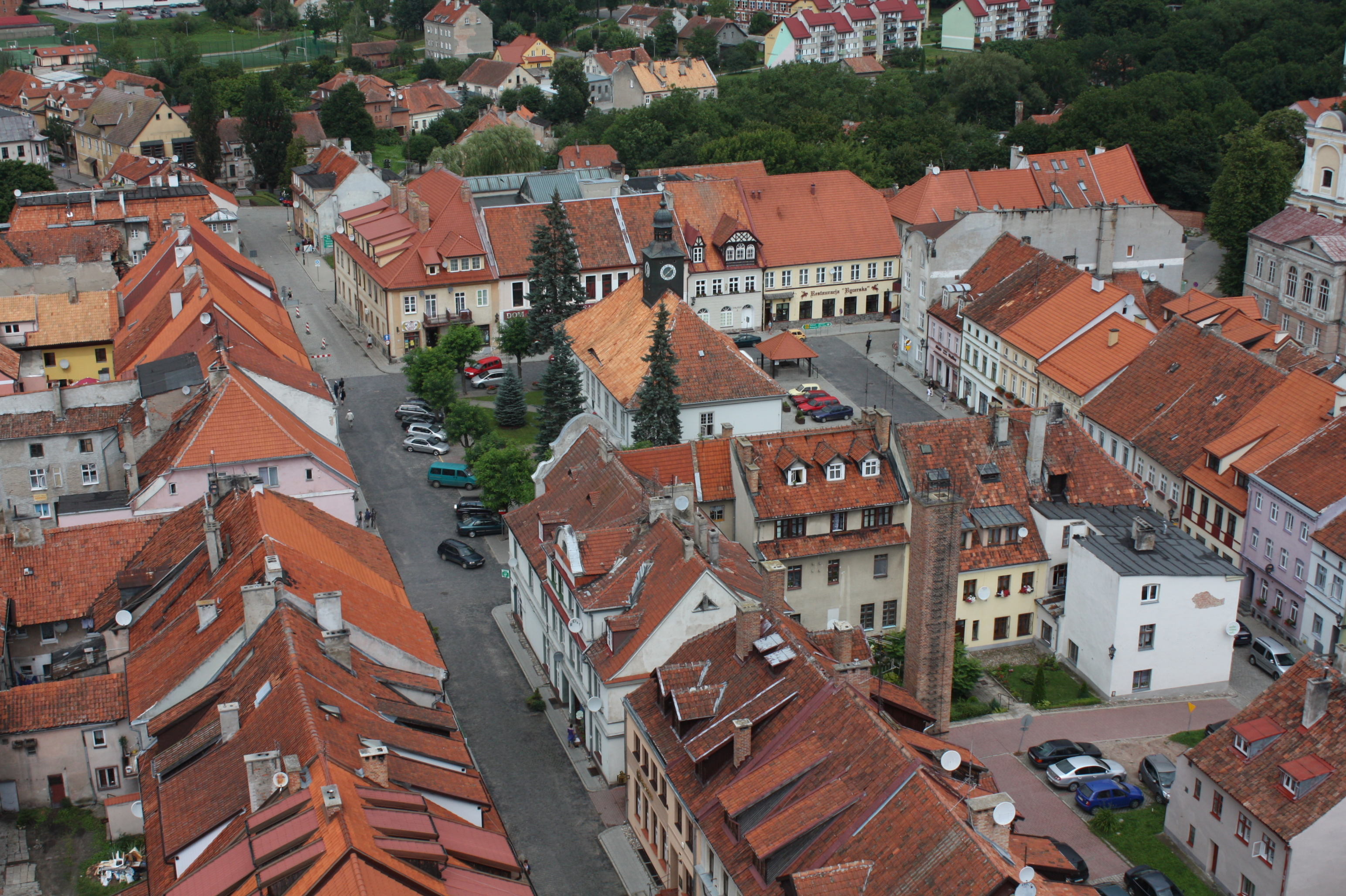 This photo of Warmian-Masurian Voivodeship was taken during Wikiexpedition 2012 set up by Wikimedia Polska Association. You can see all photographs in category Wikiekspedycja 2012. The making of this document was supported by Wikimedia Polska.